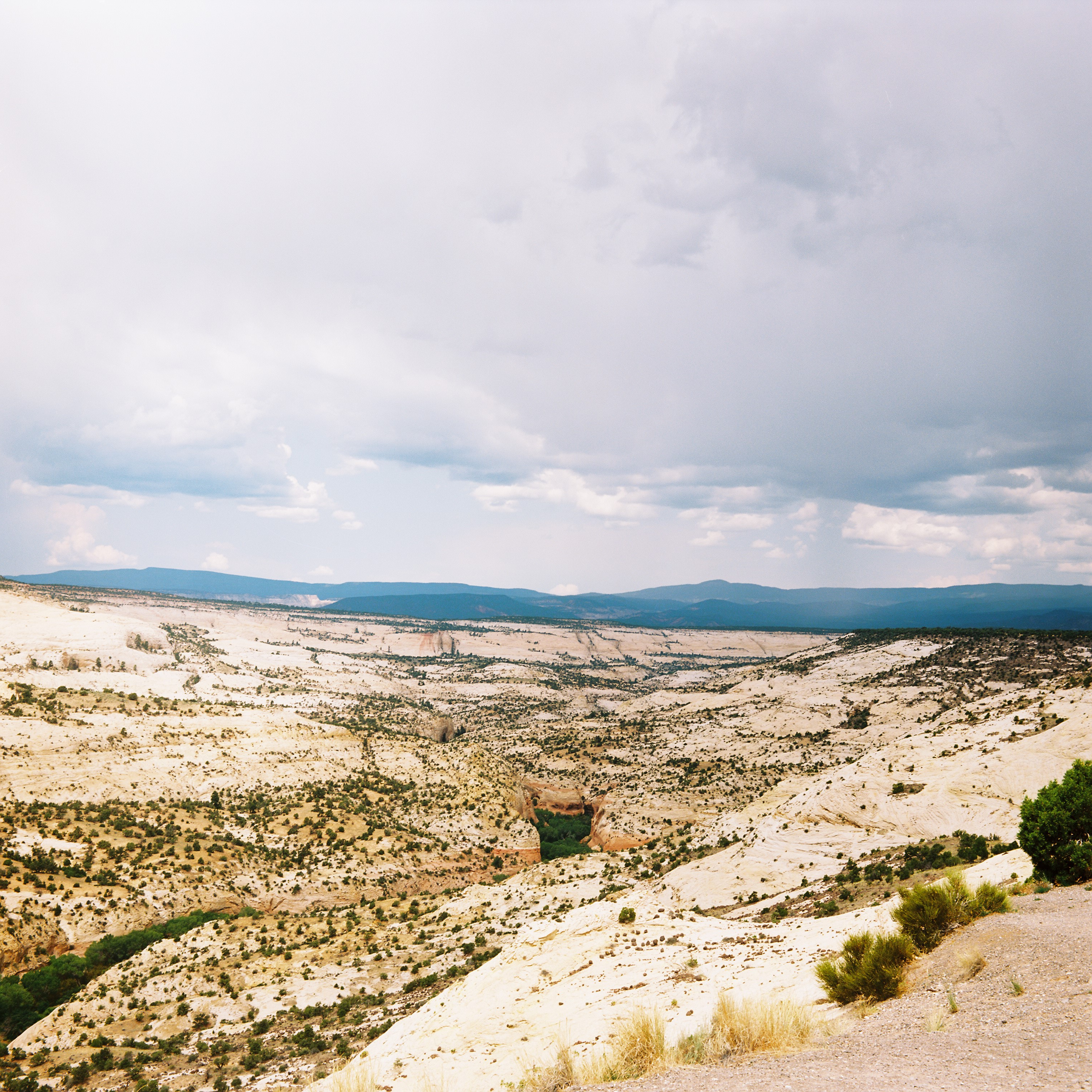 Taken with a Rolleiflex X-Automat